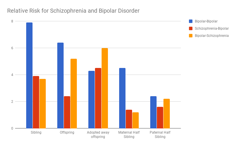 Relative Risk of bipolar and schizophrenia for probands. Data from "Dennis S. Charney, Joseph D. Buxbaum, Pamela Sklar, and Eric J. Nestler. Charney & Nestler's Neurobiology of Mental Illness (p. 162) Oxford University Press.